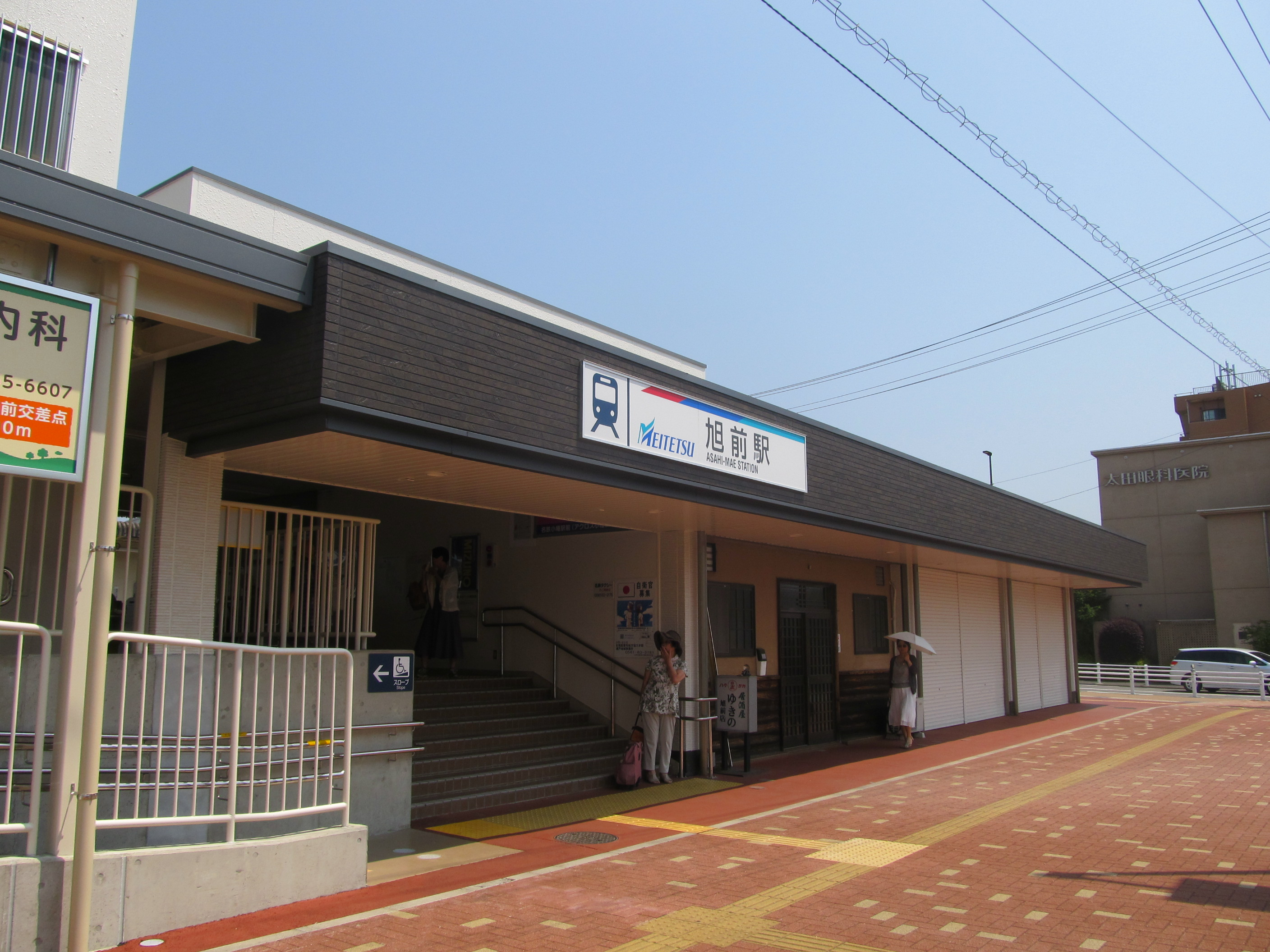 Nagoya Railroad Seto Line Asahi-mae Station Building.